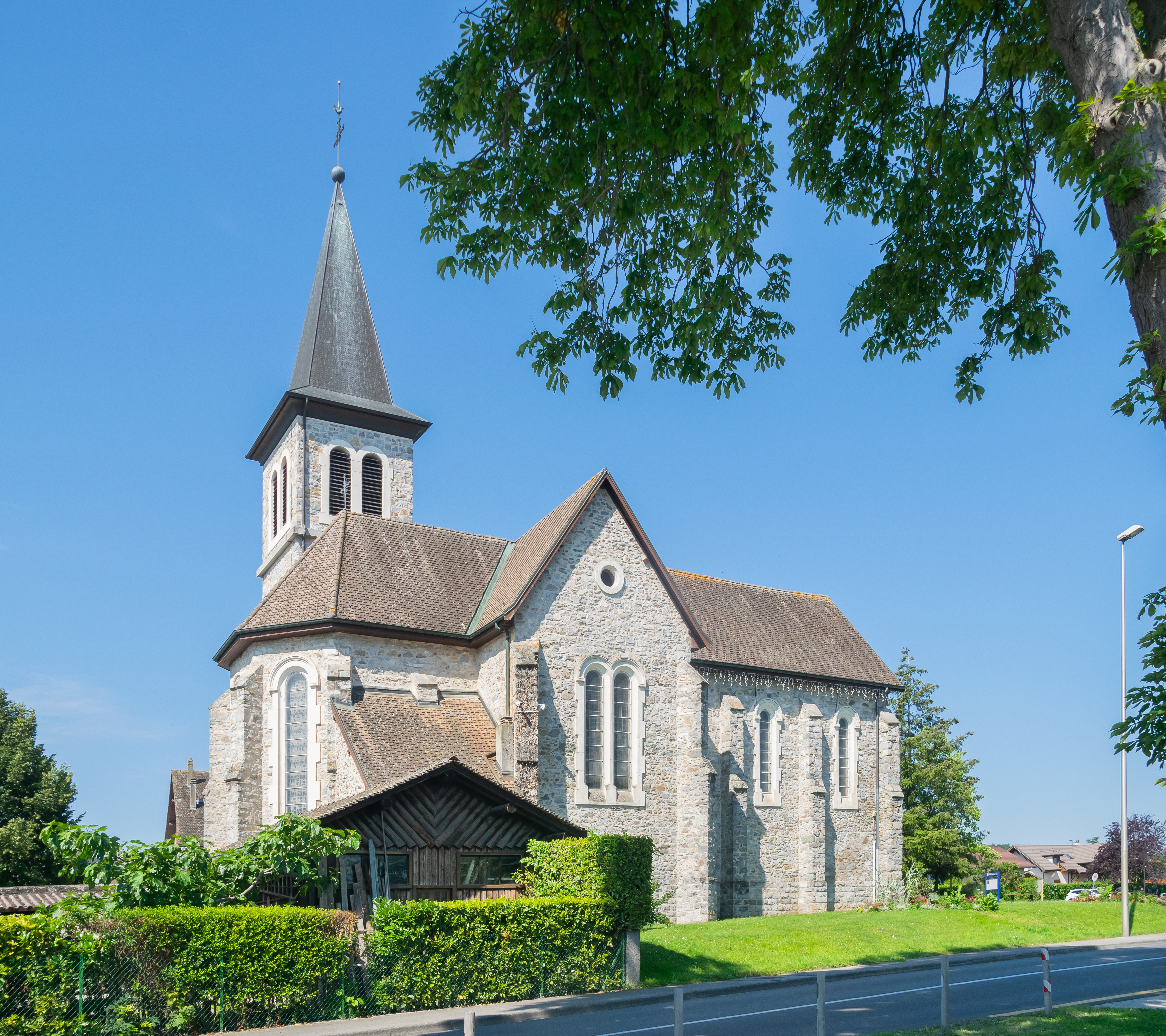 Saint Symphorian church in Excenevex, Haute-Savoie, France